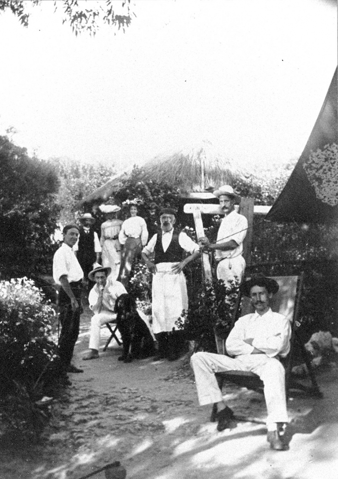 FILE: 000\000635 TITLE: Artists' camp at Balmoral,; c. 1890. NOTE: Several camps were established in Mosman in the late 1800's as a semi-permanent retreat from urban living.The best known were the Artists' camps. The one in this photograph was established by the cartoonist Livingston Hopkins ("Hop" of the Bulletin) at the northern end of Edwards Beach.